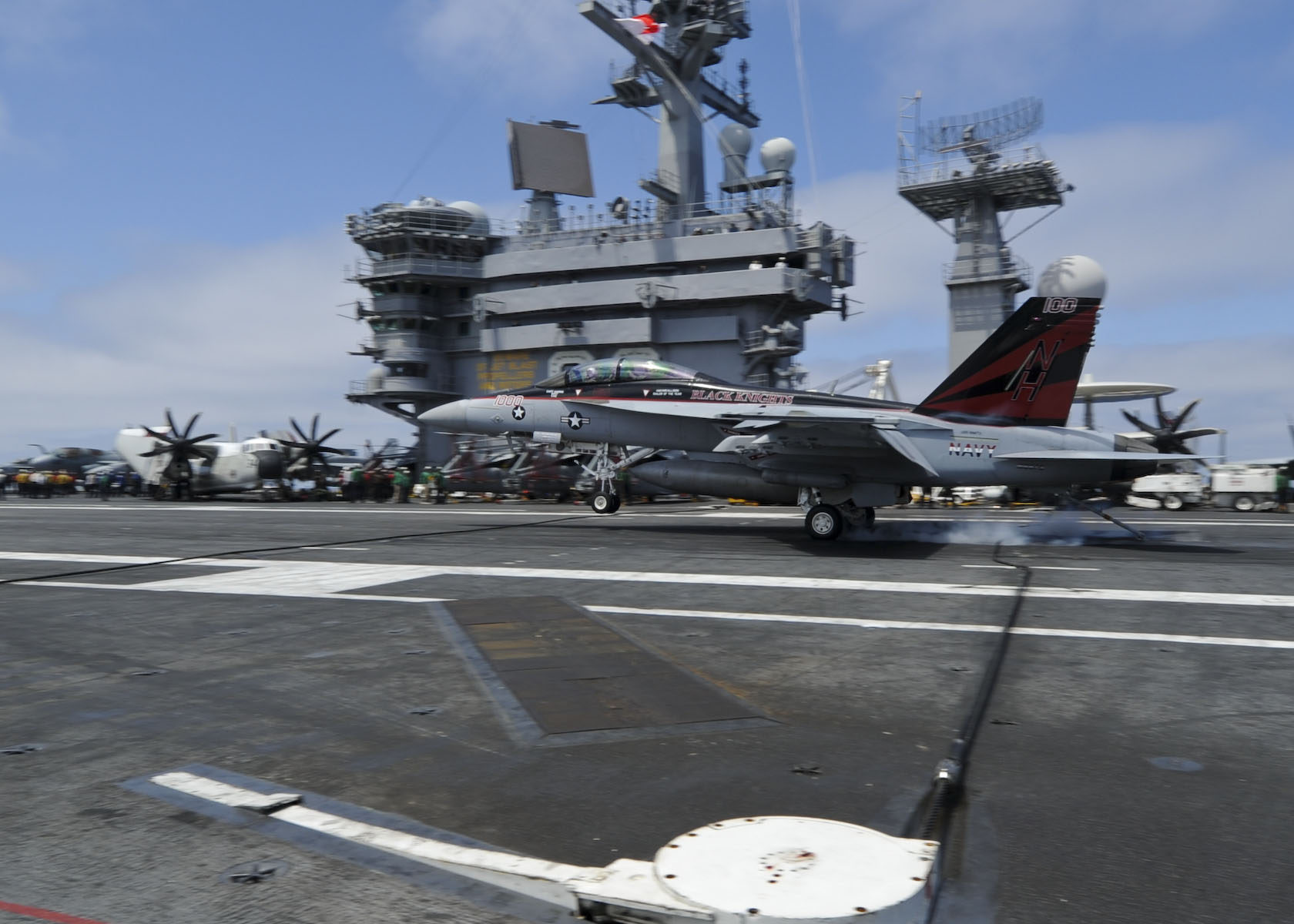 PACIFIC OCEAN (June 18, 2012) Capt. Greg Harris, commander of Carrier Air Wing (CVW) 11, and Capt. Jeff Ruth, commanding officer of the aircraft carrier USS Nimitz (CVN 68), land aboard Nimitz as Harris completes his 1,000th carrier landing. Nimitz recently got underway to participation in the Rim of the Pacific (RIMPAC) training exercise, the world’s largest international maritime exercise. (U.S. Navy photo by Mass Communication Specialist Seaman Apprentice Ryan J. Mayes/Released) 120618-N-RC246-192 Join the conversation navylive.dodlive.mil